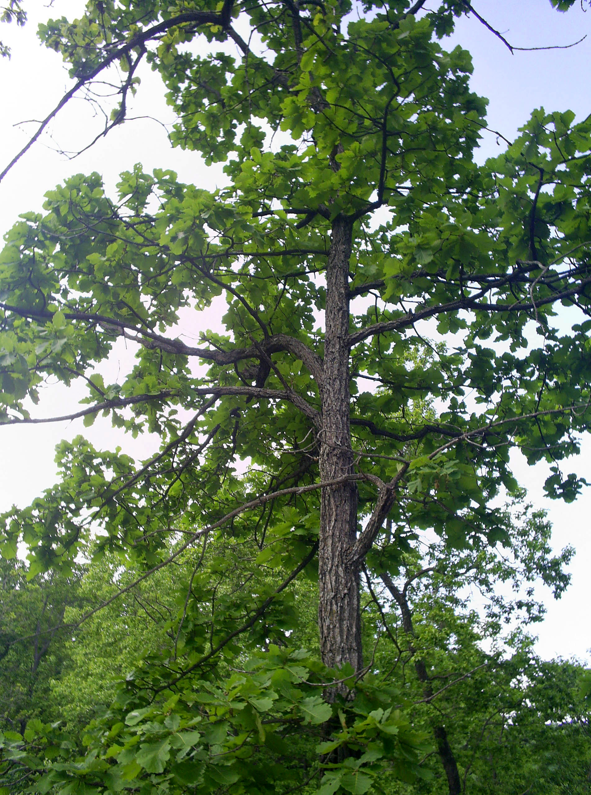 Mongolian Oak Quercus mongolica in June 2007, Sikhote-Alin, Russia